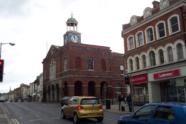 The Town Hall, Bridport. Built in 1785